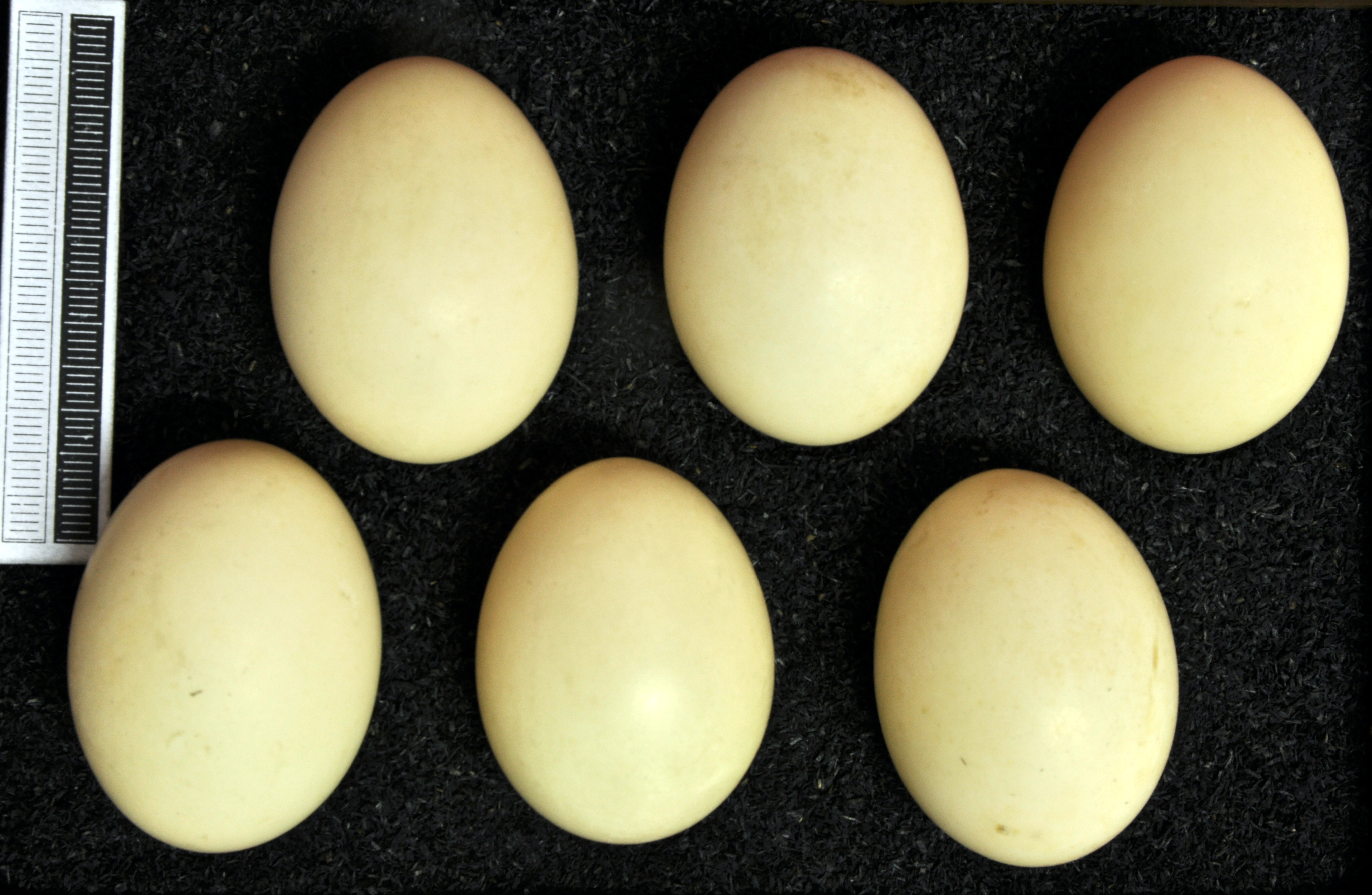 Marbled duck Marmaronetta angustirostris , egg, Coll. Museum Wiesbaden